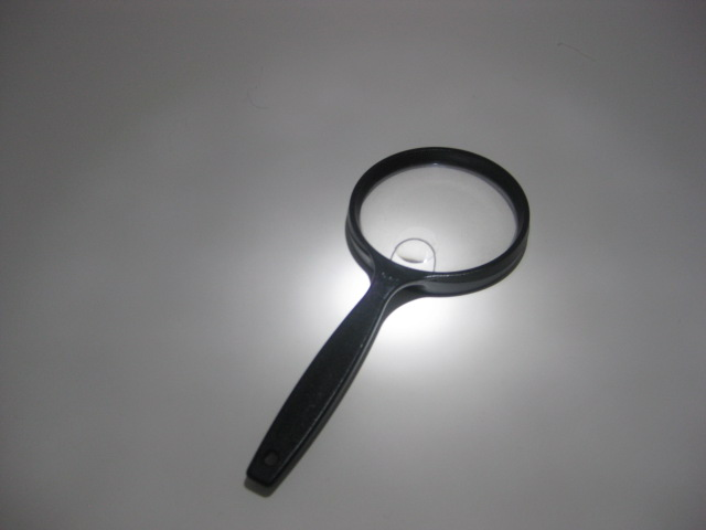 It's a simple picture of a magnifying glass.